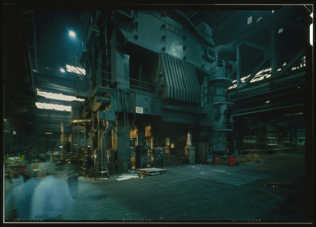 Wyman-Gordon Company, Grafton Plant, 50000 Short Ton Press, 244 Worcester Street, Grafton, Worcester County, MA